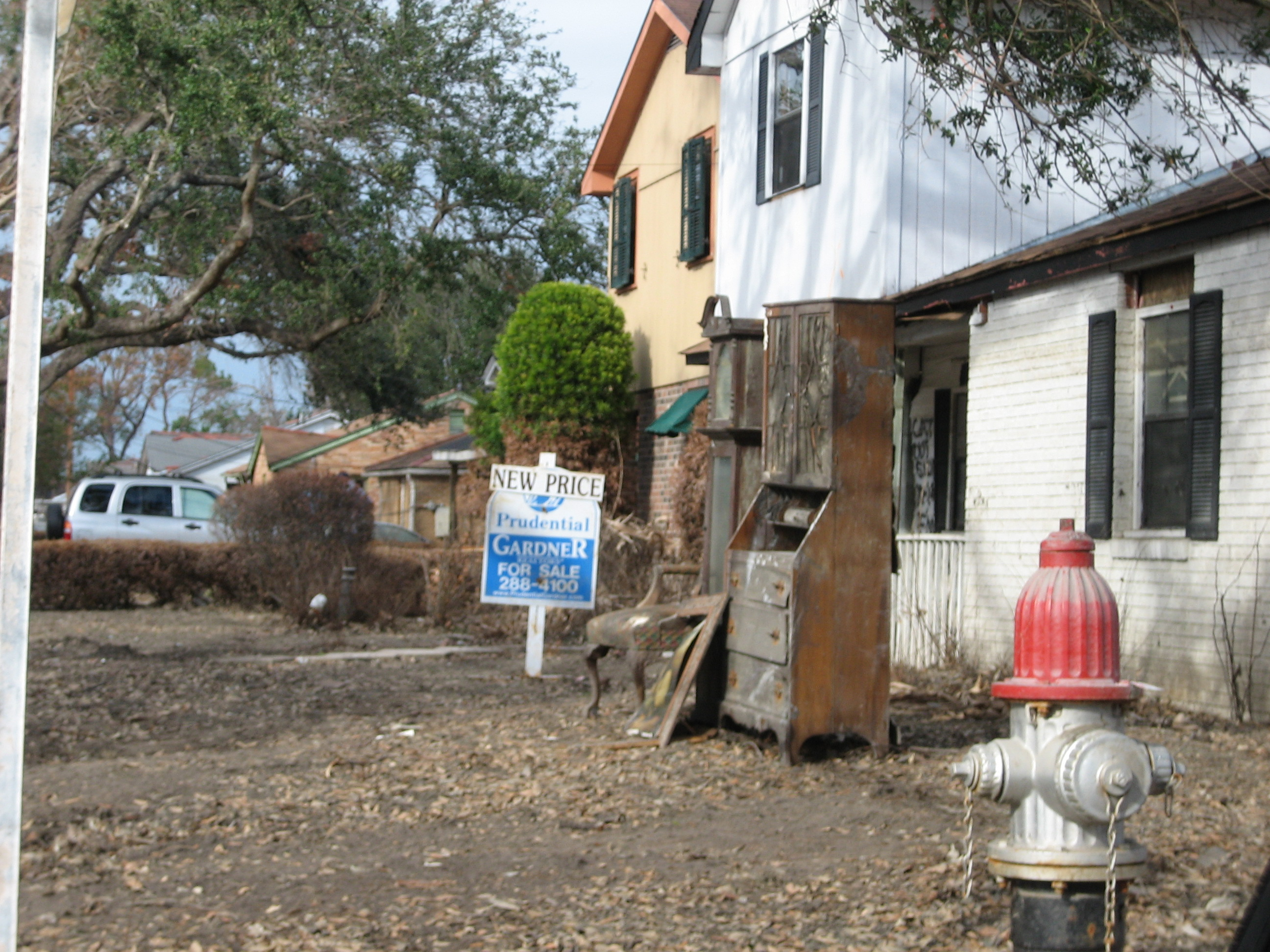 New Orleans after Hurricane Katrina: Flood damaged house in Gentilly neighborhood advertises it is for sale at new price. Water damaged furniture including grandfather-clock air out on (dead from flooding) front lawn.